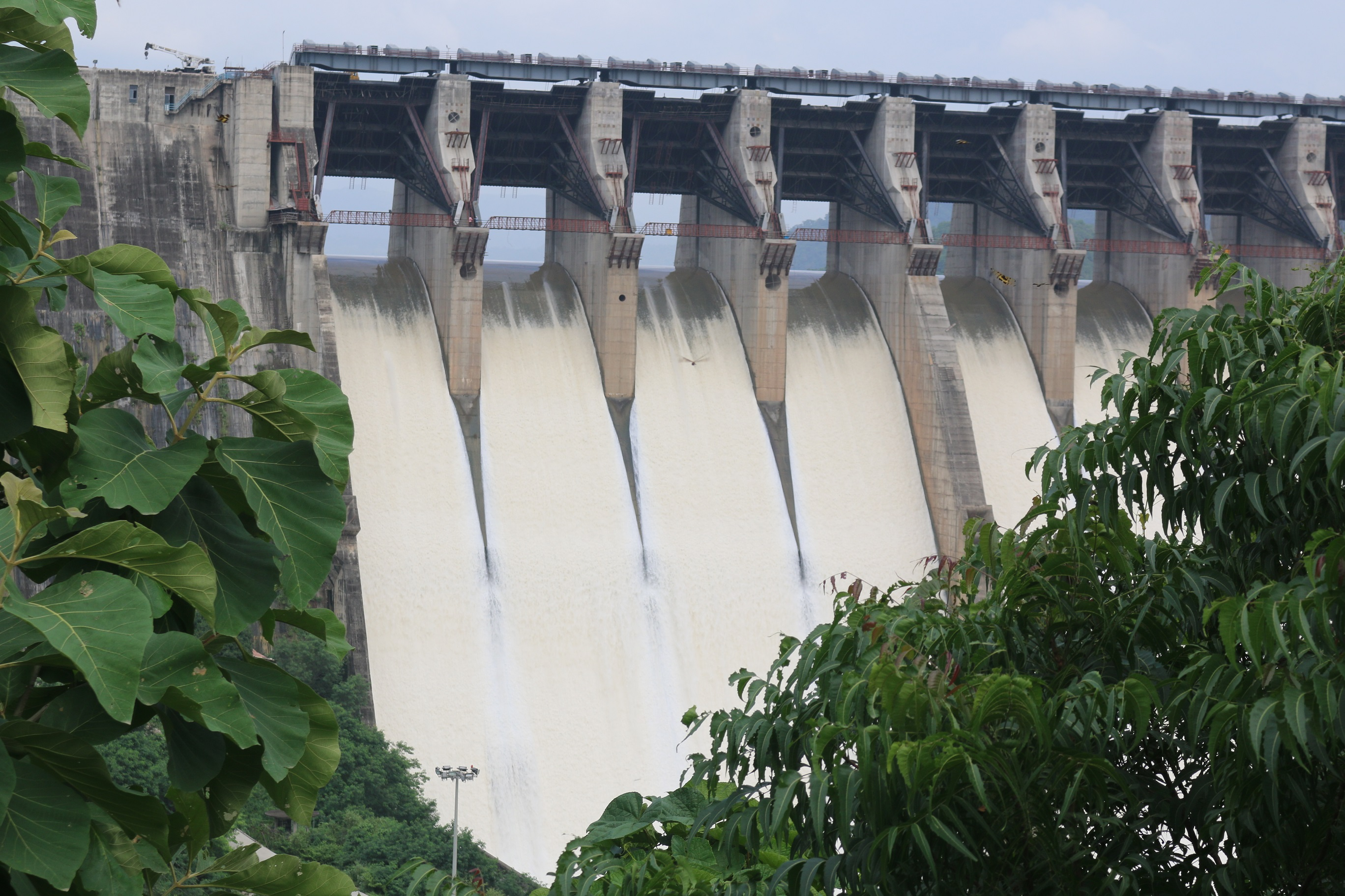 Sardar Sarovar Dam on the Narmada river, Gujarat